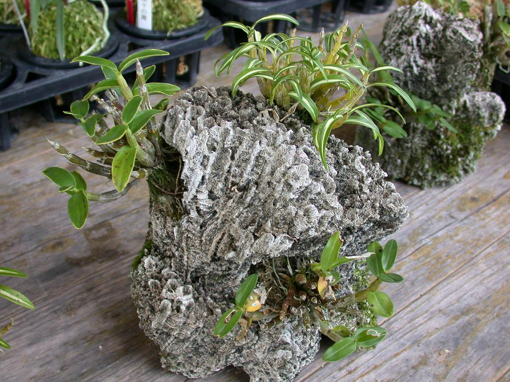 Name Dendrobium_moniliforme （長生蘭；寄せ植え） Family Orchidaceae Date;2006,10;Tanabe city, Wakayama prefecture, Japan Author;Keisotyo